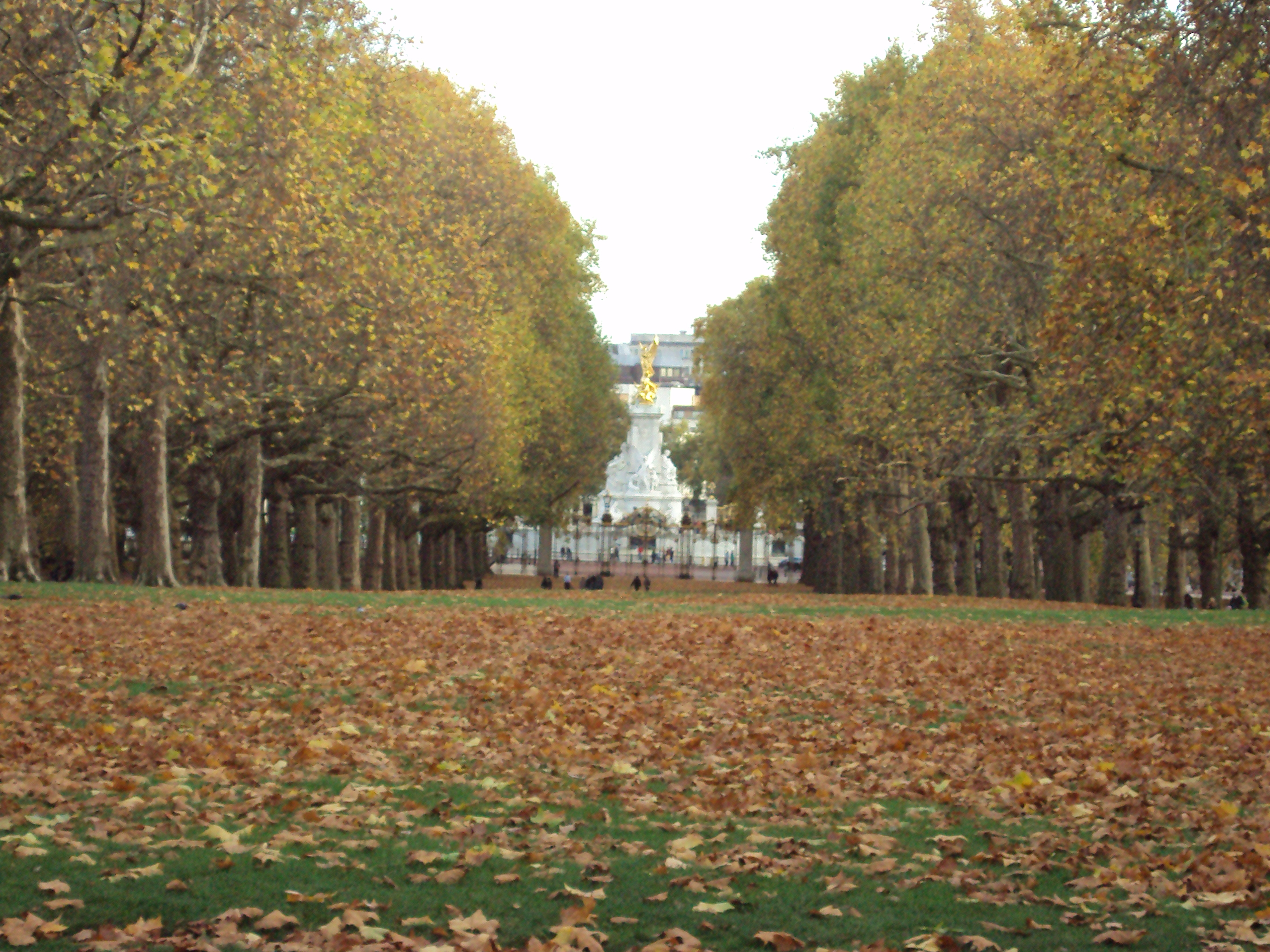 Green Park, London in autumn. The Victoria Monument outside Buckingham Palace can be seen in the distance.